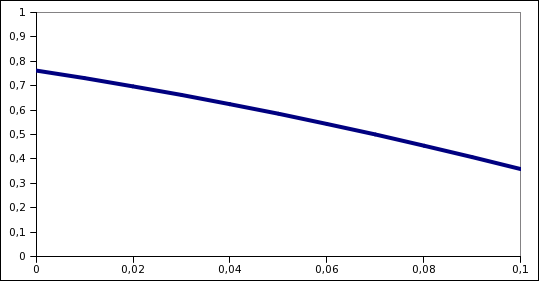 dependency between: reduced difference of medium temperature in the collector and ambient temperature, and efficiency